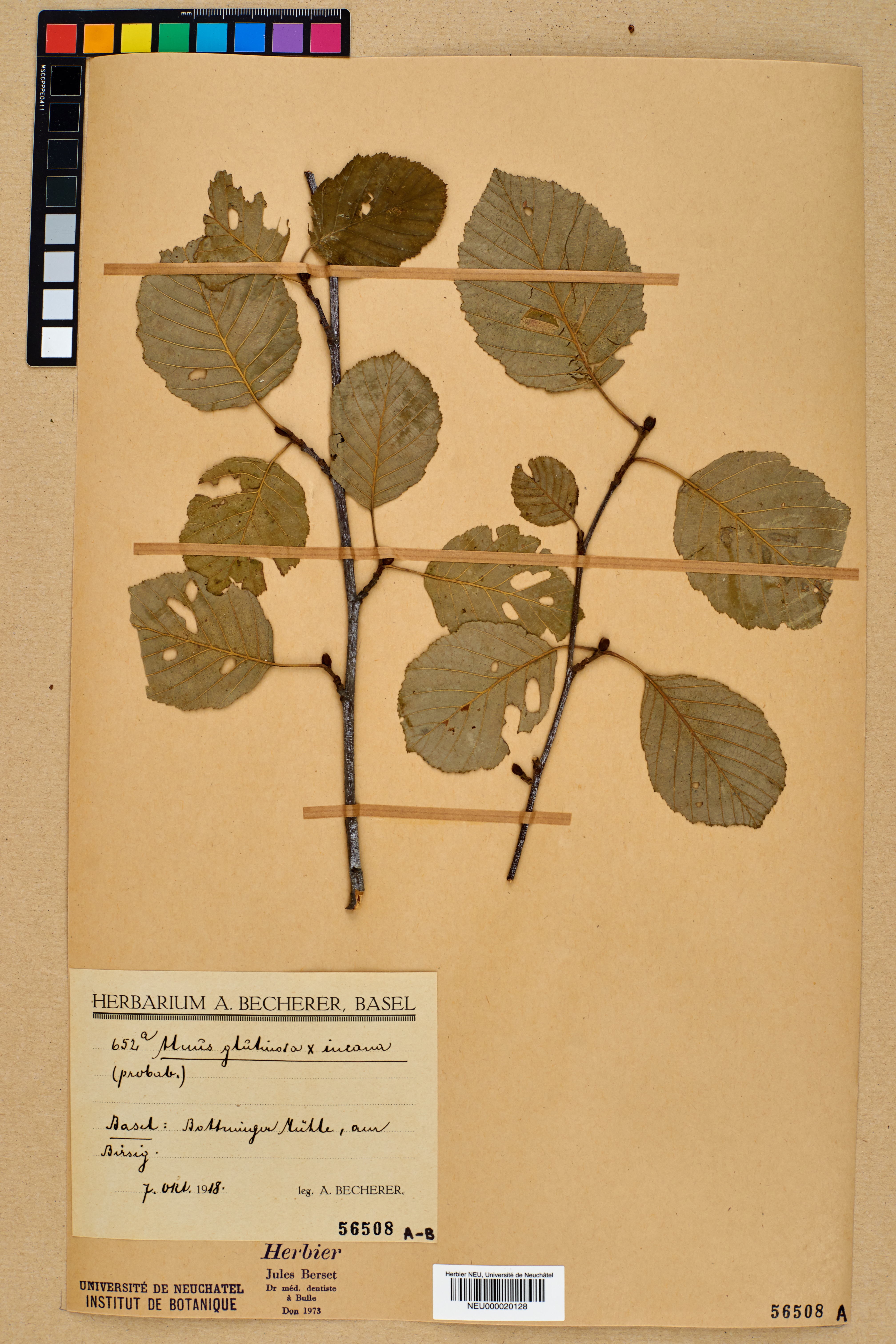 Dried pressed specimen of Alnus x pubescens